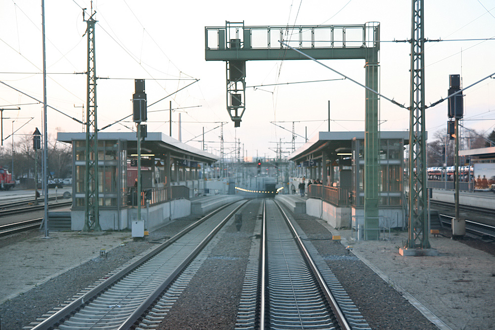 The train station of Ingolstadt Nord with the beginning of the Nuremberg-Ingolstadt high-speed line ahead and the Audi-Tunnel behind.